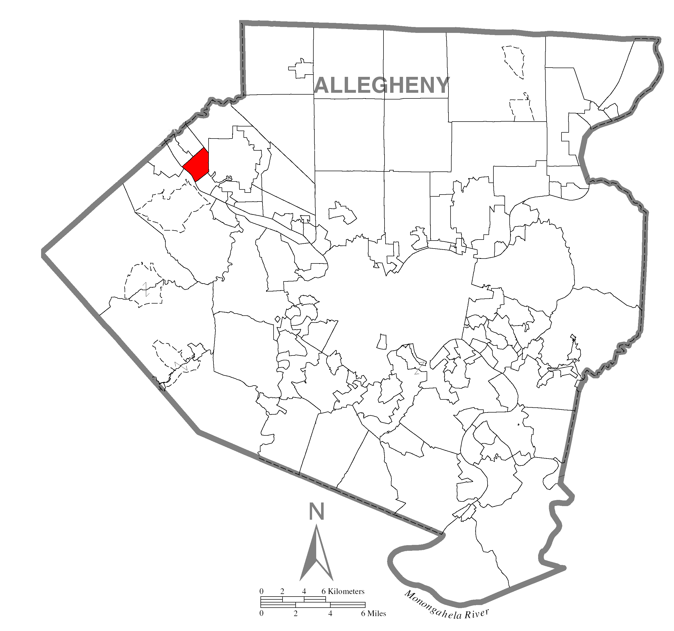 A map of Allegheny County showing Edgeworth, Pennsylvania (alternate) highlighted on the map.